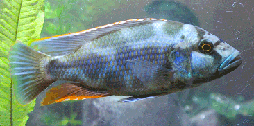 This is a photo taken of an adult male Nimbochromis livingstoni